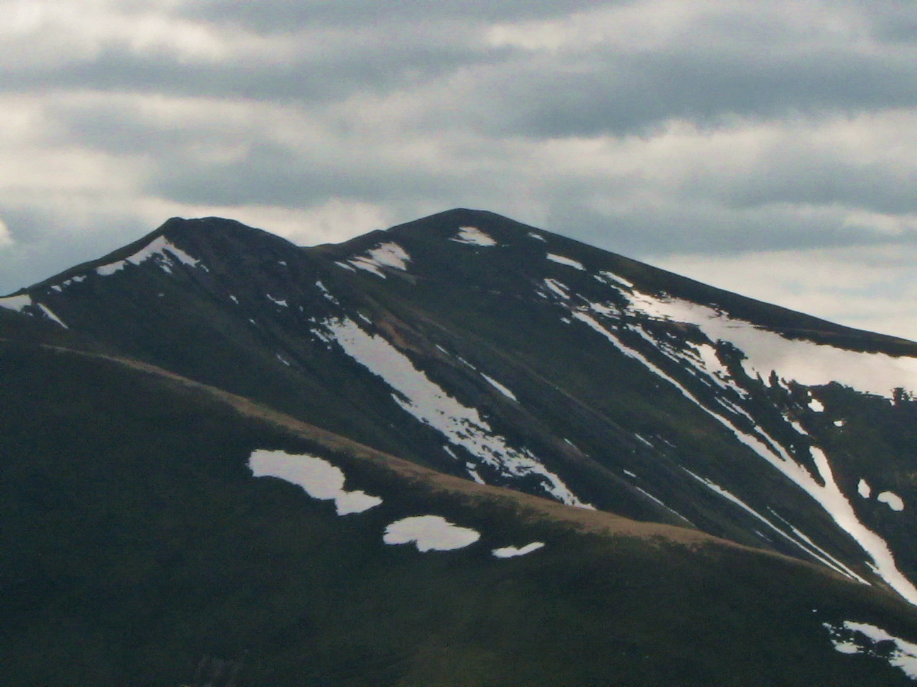 Stiy mountain in Ukraine